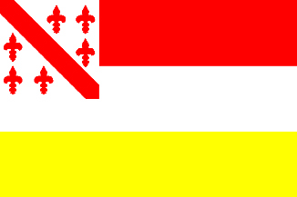 Flag of the former dutch municipality of Amerongen